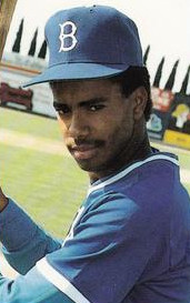 Professional baseball player Jose Vizcaino